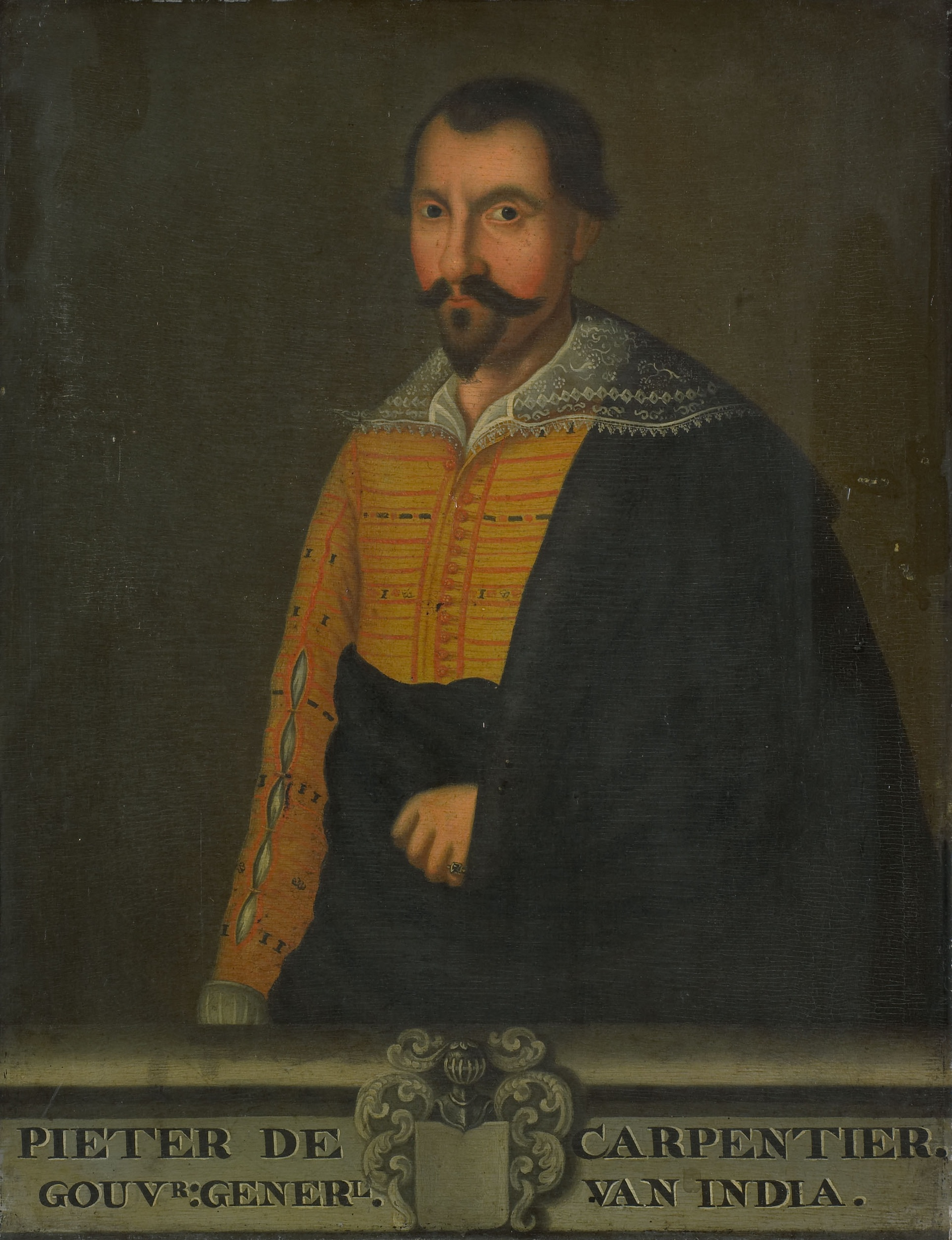 Portrait of Pieter de Carpentier (1588-1659), Governor-General of the Dutch East Indies from 1623 to 1627. Part of the Governors-general series.